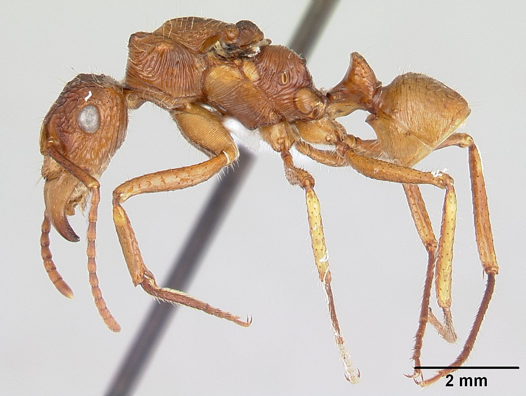 Profile view of ant Ectatomma parasiticum specimen casent0178851.